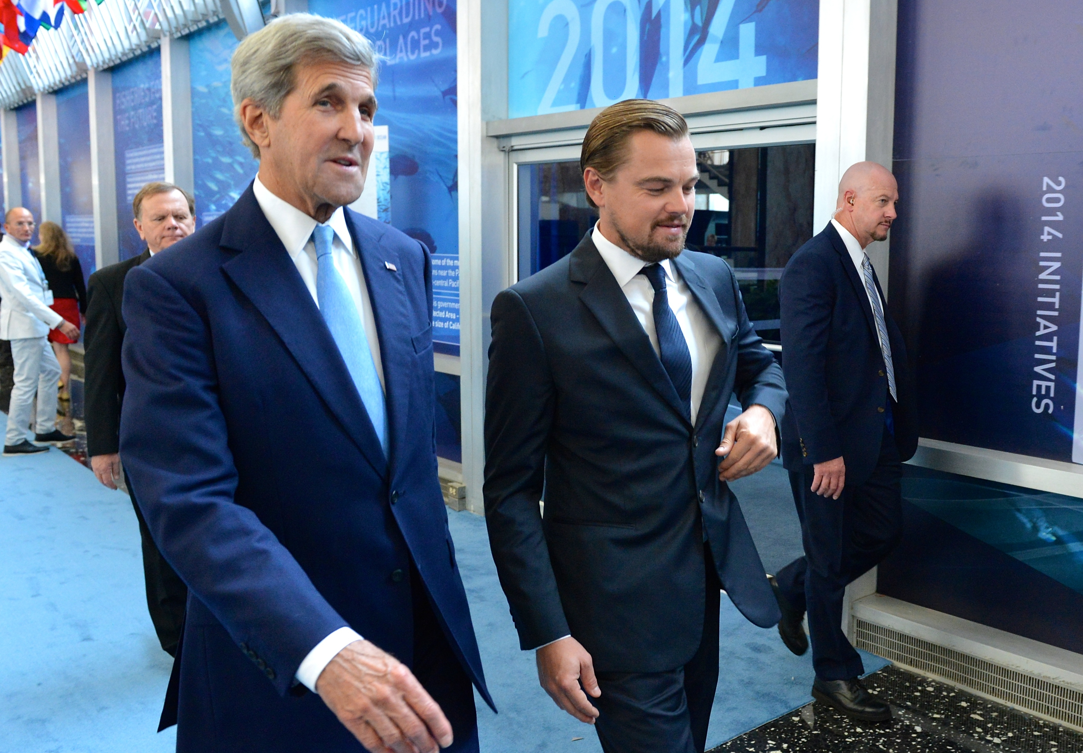 U.S. Secretary of State John Kerry and Actor and Environmental Activist Leonardo DiCaprio at the 2016 Our Ocean Conference at the U.S. Department of State in Washington, D.C. on September 15, 2016. [State Department Photo/ Public Domain]